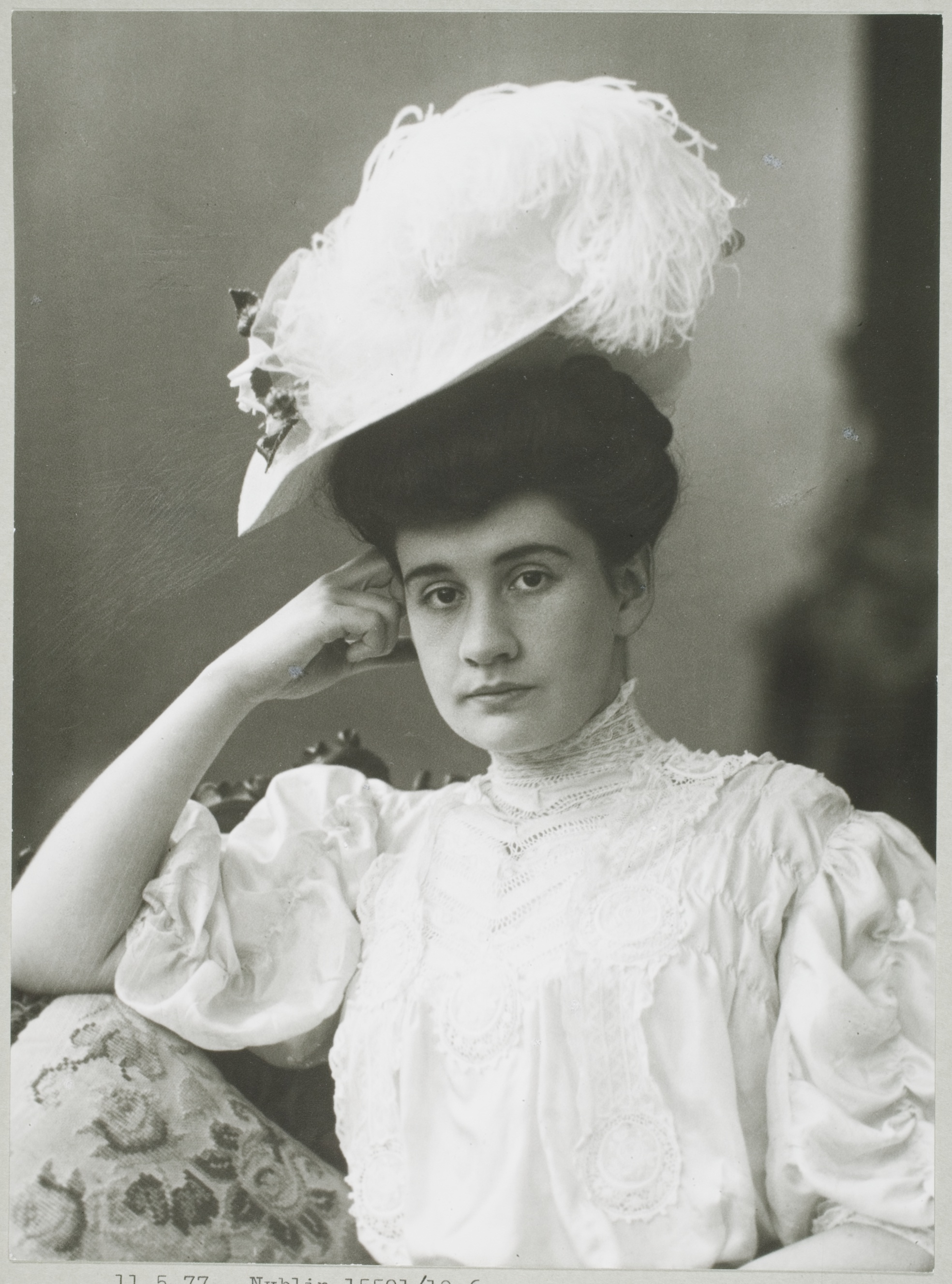 Photograph of the Finnish opera singer Irma Achté, stage name Irma Tervani, (1887–1936).